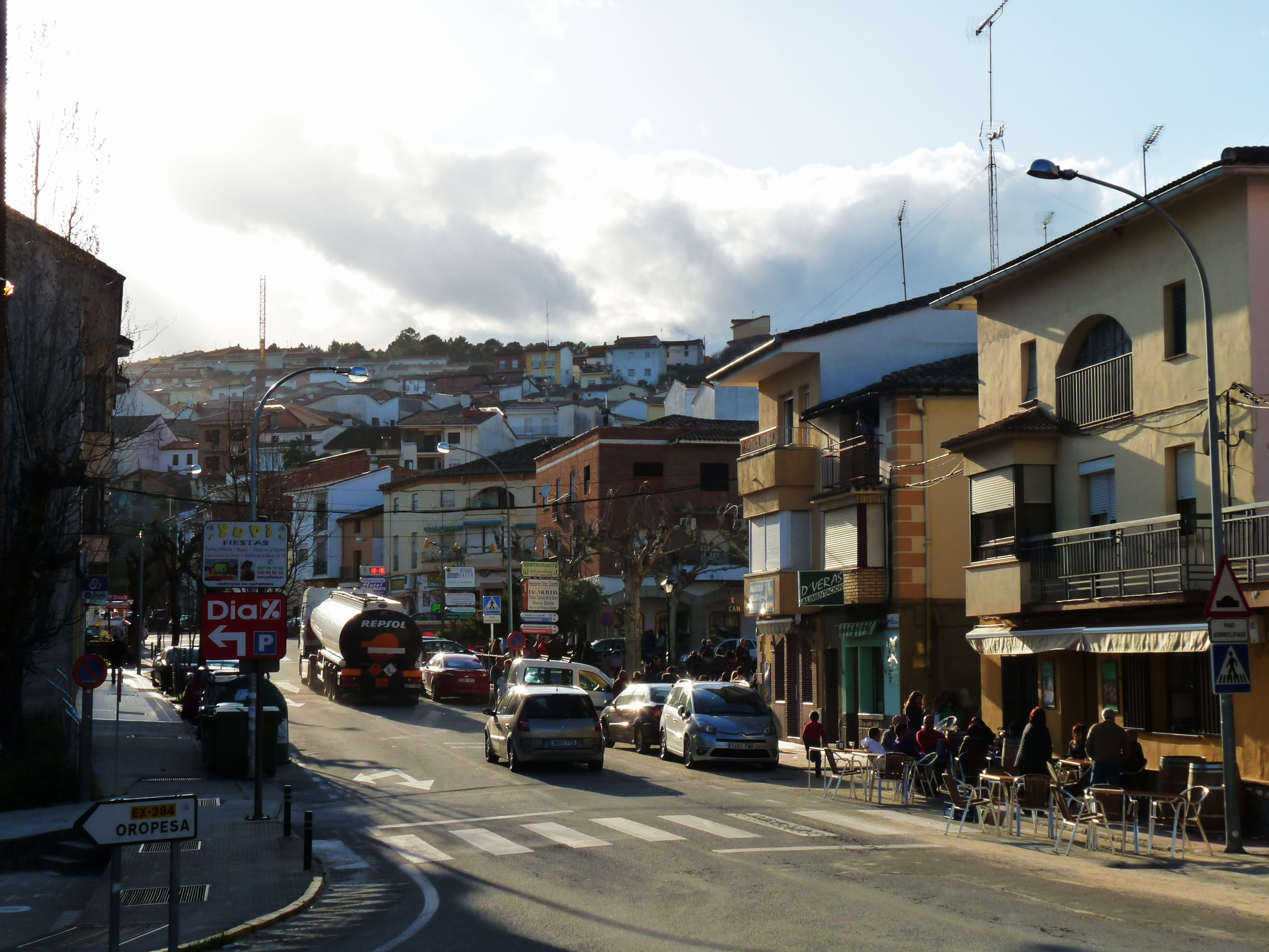 View of Madrigal de la Vera.